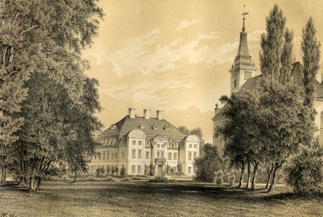 Castel Ivenack in Mecklenburg, Germany, ca. 1880